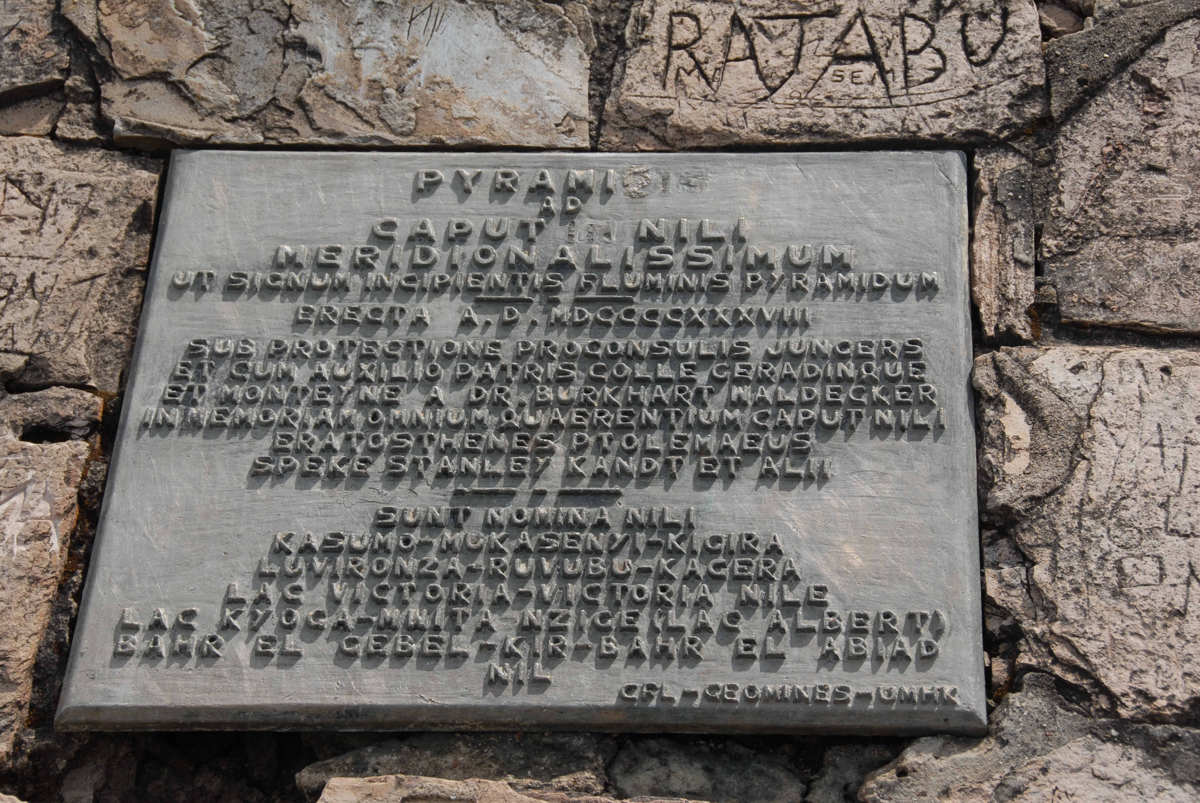 The source of the Nile, or so the locals say